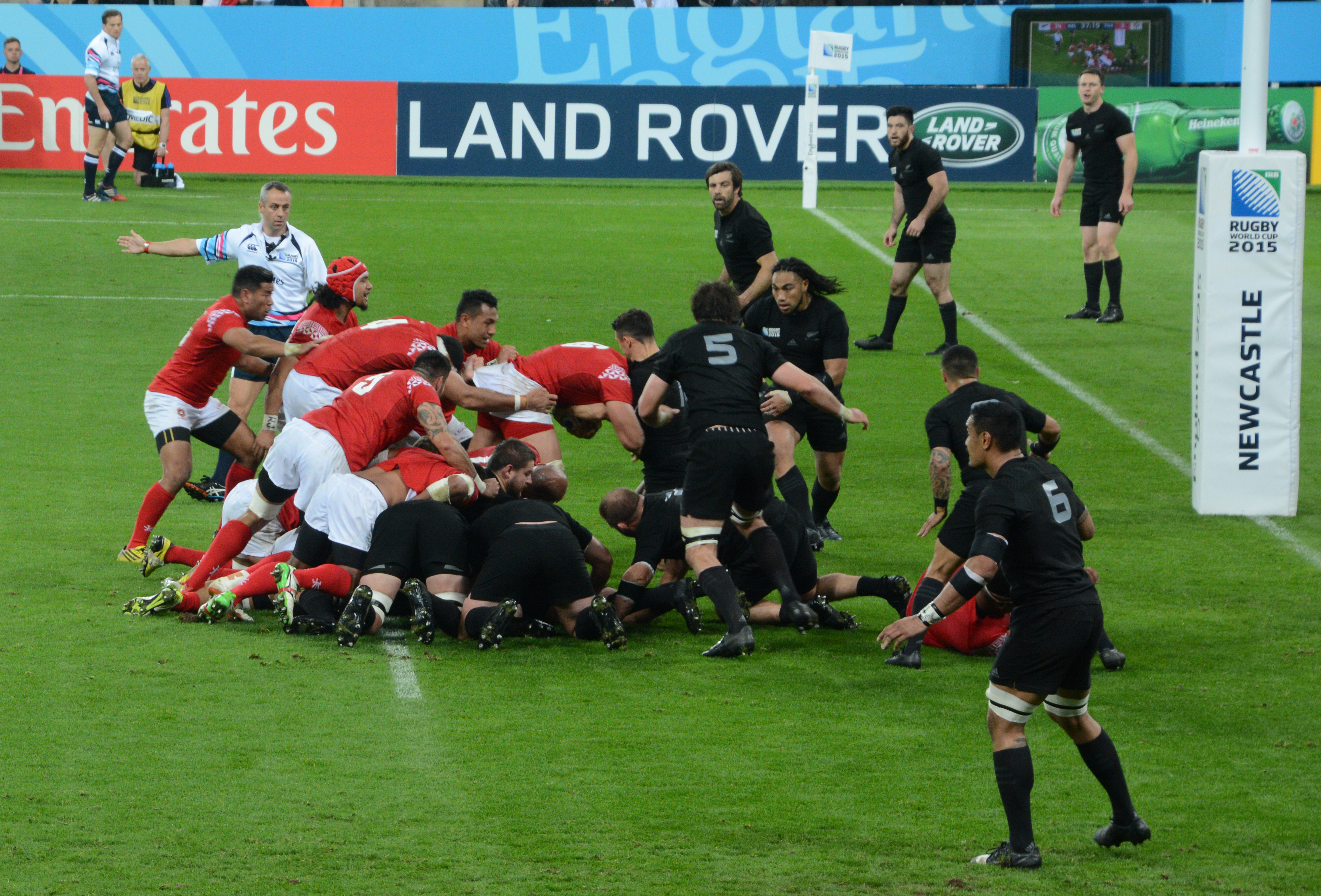 2015 Rugby World Cup match New Zealand vs Tonga at St. James’ Park, Newcastle upon Tyne.